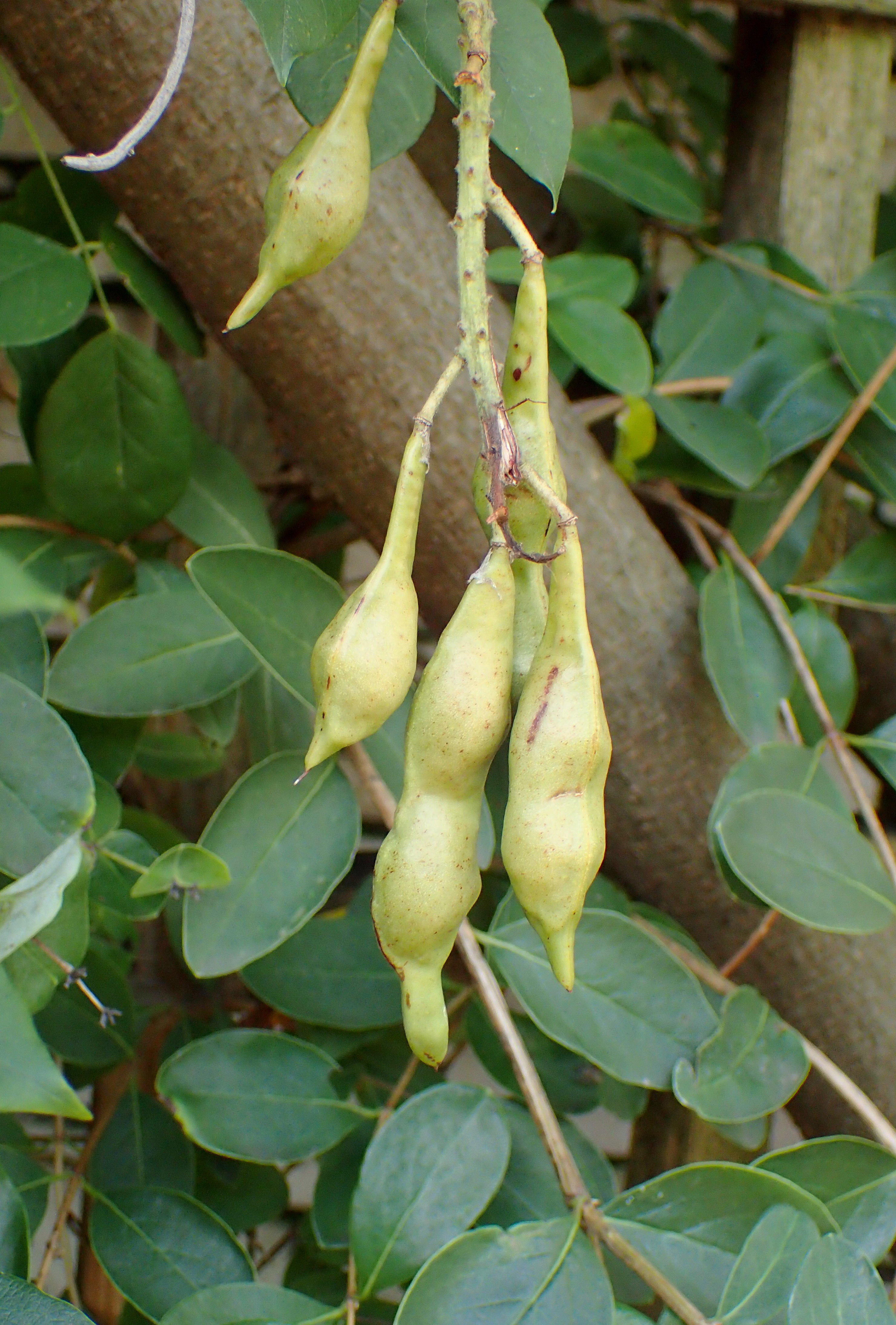 Wisteria frutescens var. macrostachya in Olbrich Botanical Gardens, Madison, Wi